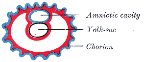 Diagram showing earliest observed stage of human ovum.